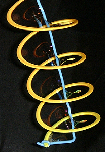 Personal Photo to illustrate the helical section along with a physical property of soap bubbles.